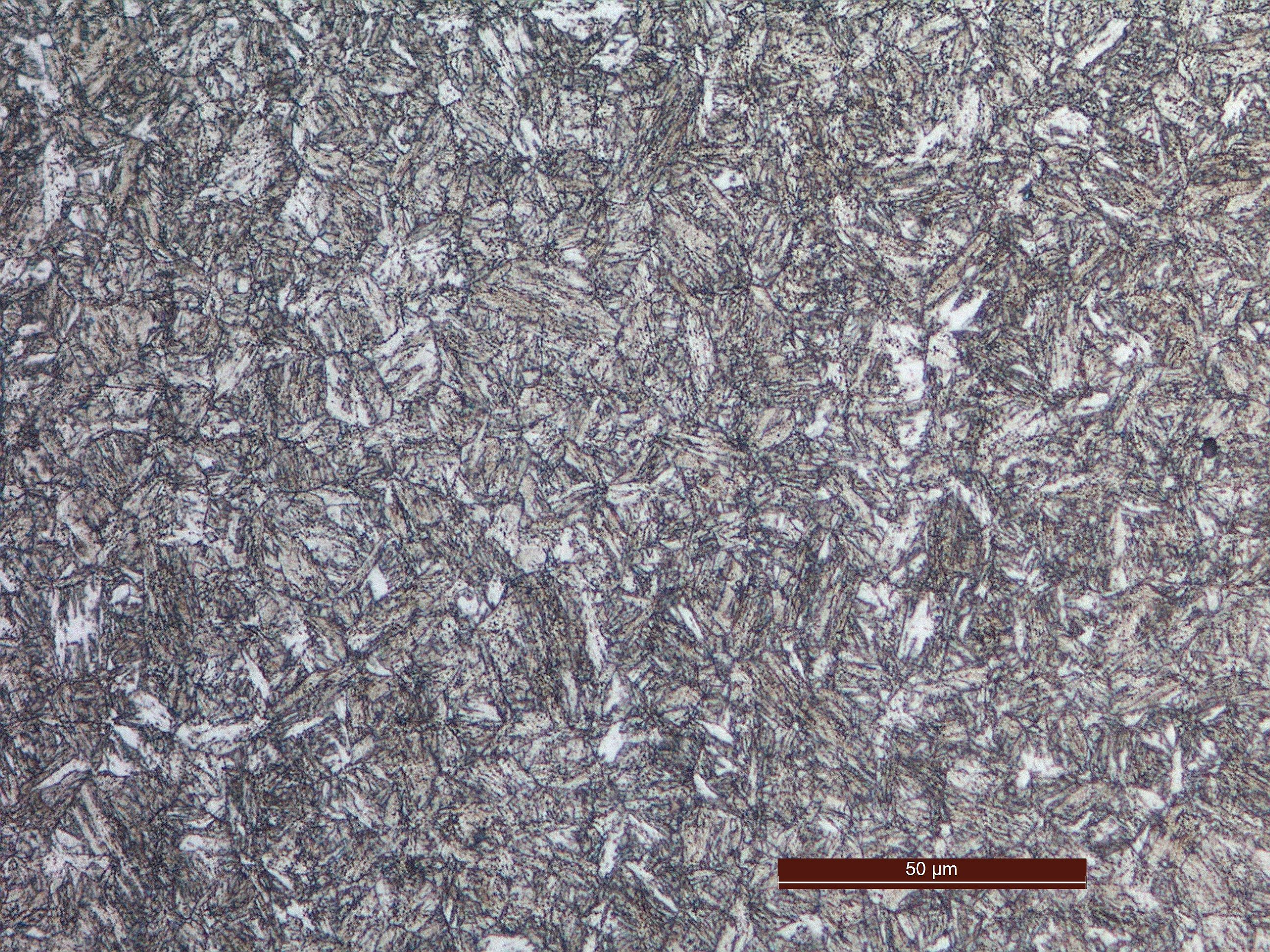 Tempered martensite on structural (quenched & tempered) steel